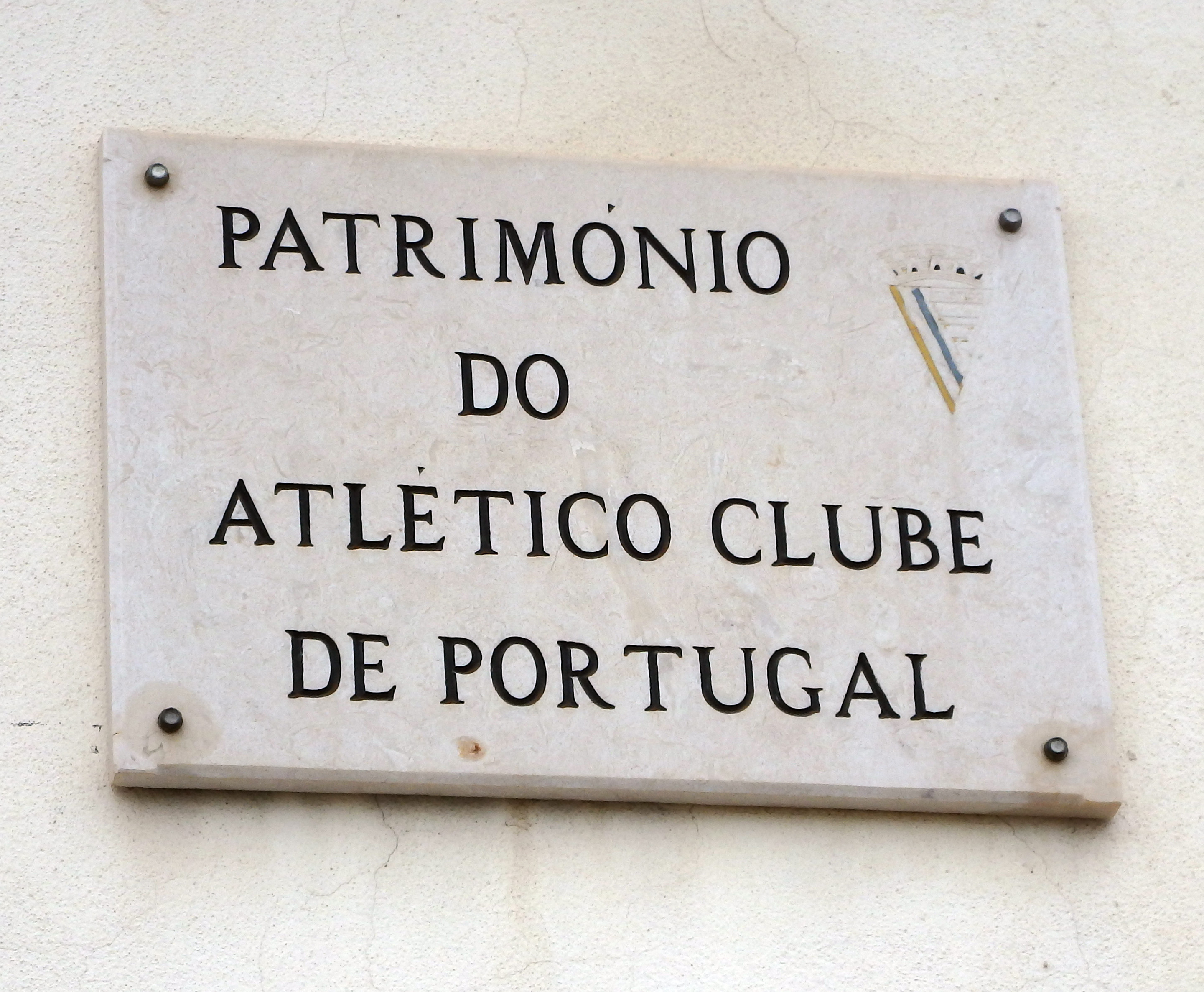 Lisbon